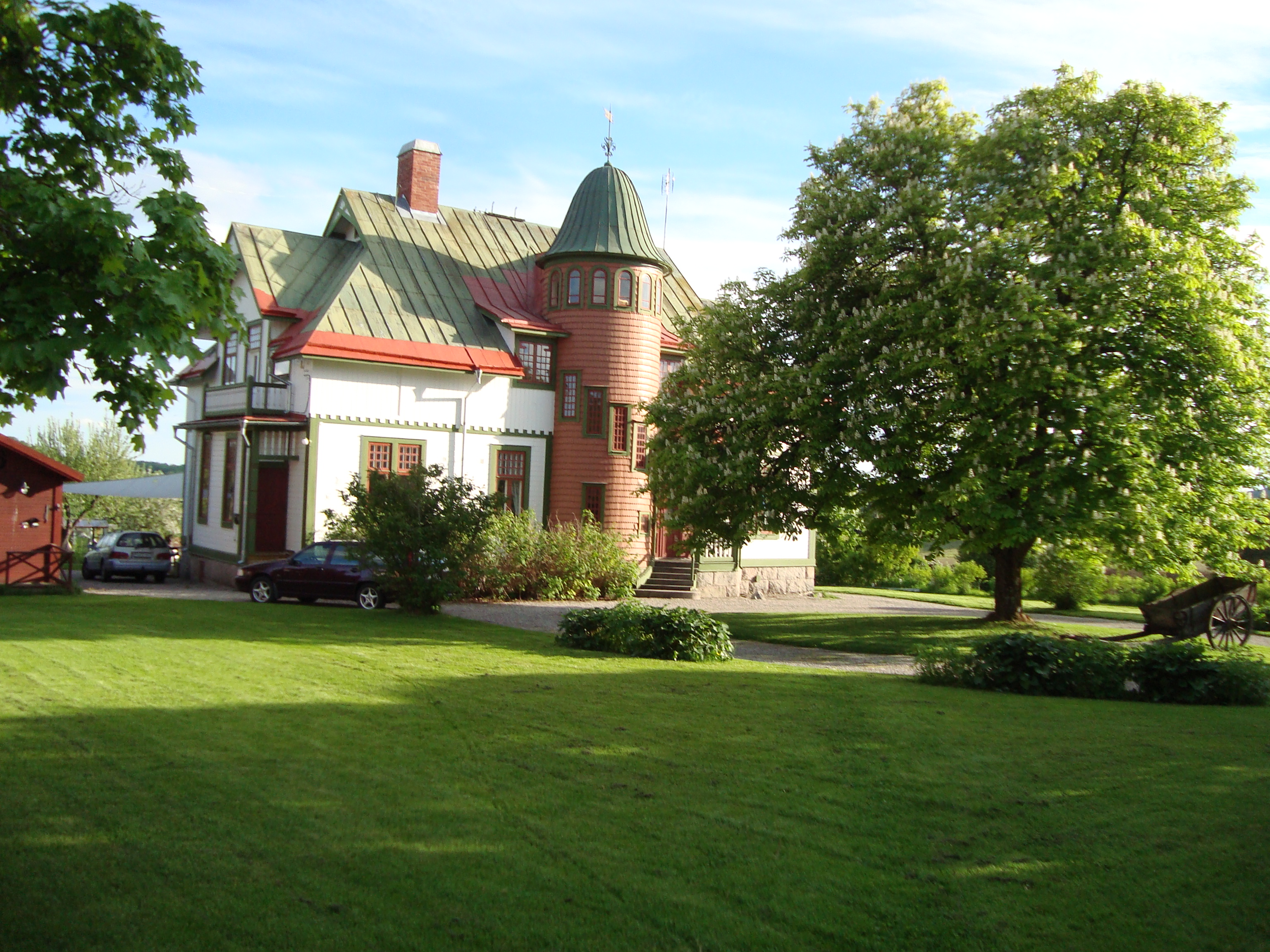 Torsåker, Hofors Municipality, Sweden